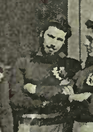 William Forsyth from a picture of the first Scotland Rugby side in 1871.